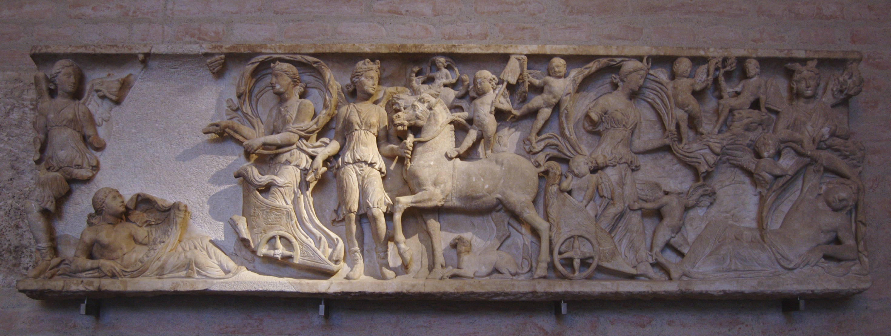 Front side of a Roman sarcophagus: Selene with the shepherd Endymion on Mount Latmos (Anatolia). Center and right: arrival of the moon goddess in love; Endymion, in eternal sleep, is moved in a cave under her control; the winged god of the sleep (Hypnos), repands on the shepherd a sleeping liquid; the mountain god, Latmos, is sit on a rock on top; Selene on her symbol animal, the cancer. Left: departure of the goddess; Mother Earth downwards; the horses of Selene are driven by Eos, goddess of Down. Many erotes. Ca. 180 CE.